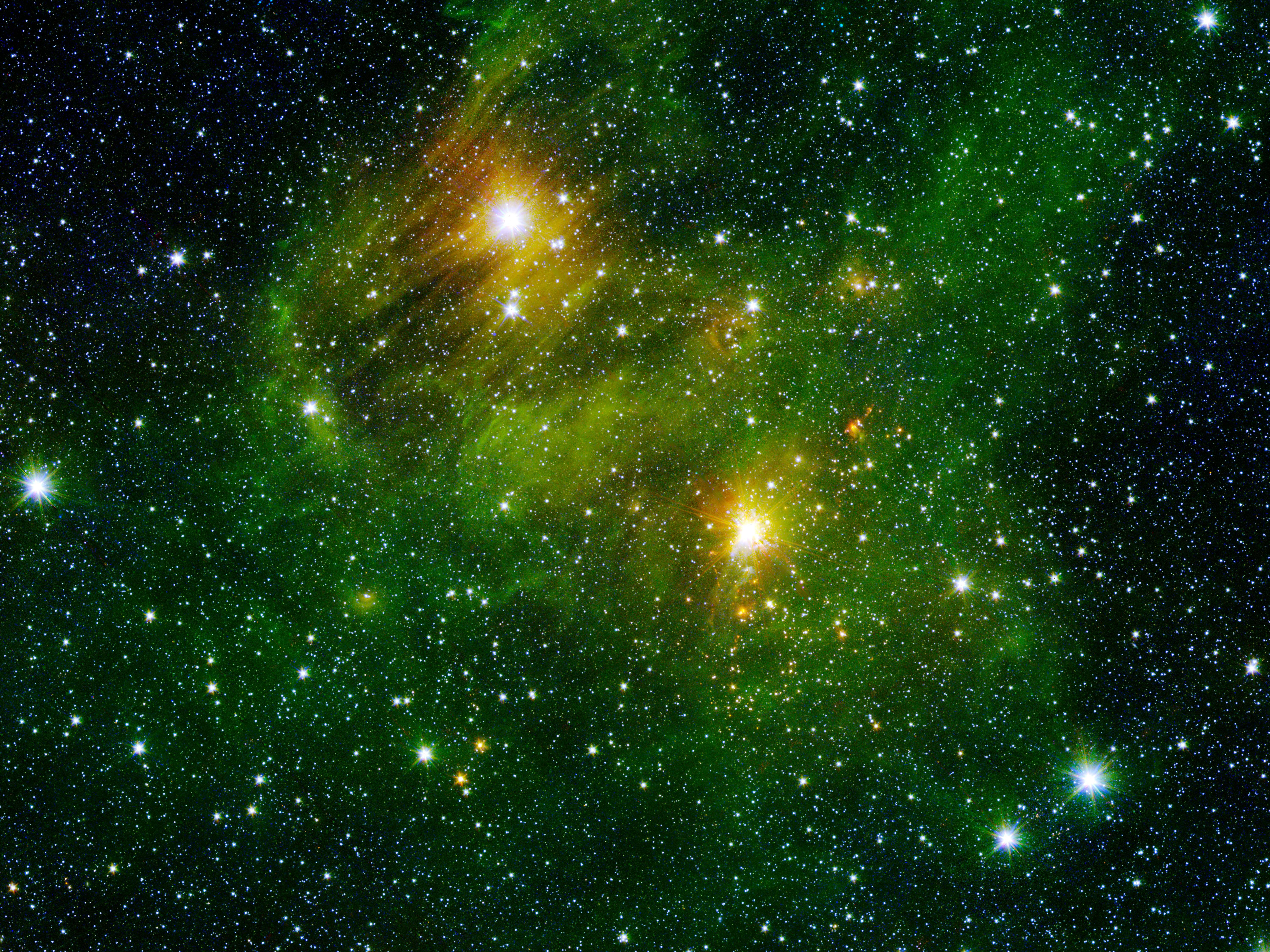 Two extremely bright stars illuminate a greenish mist in this image from the Spitzer Space Telescope's "GLIMPSE360" survey. This mist is comprised of hydrogen and carbon compounds called polycyclic aromatic hydrocarbons (PAHs), which also are found here on Earth in sooty vehicle exhaust and on charred grills. In space, PAHs form in the dark clouds that give rise to stars. These molecules provide astronomers a way to visualize the peripheries of gas clouds and study their structures in great detail. They are not actually green; but are color coded in these images to allow scientists see their glow in infra-red. This image is a combination of data from Spitzer and the Two-Micron All-Sky Survey (2MASS).